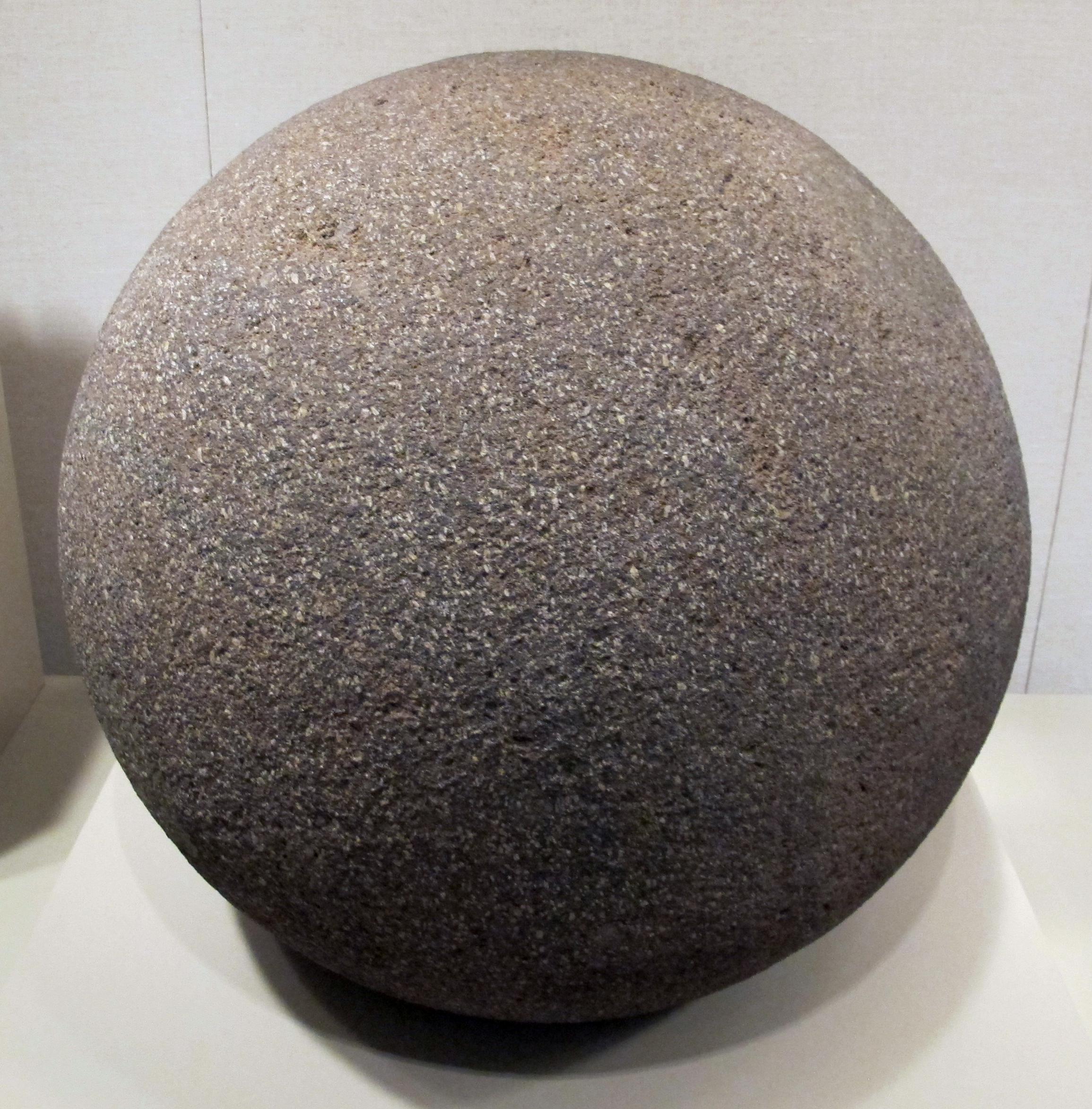 Pre-Columbian art in the Metropolitan Museum of Art